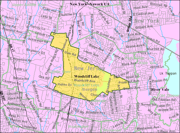 U.S. Census Bureau map of Woodcliff Lake